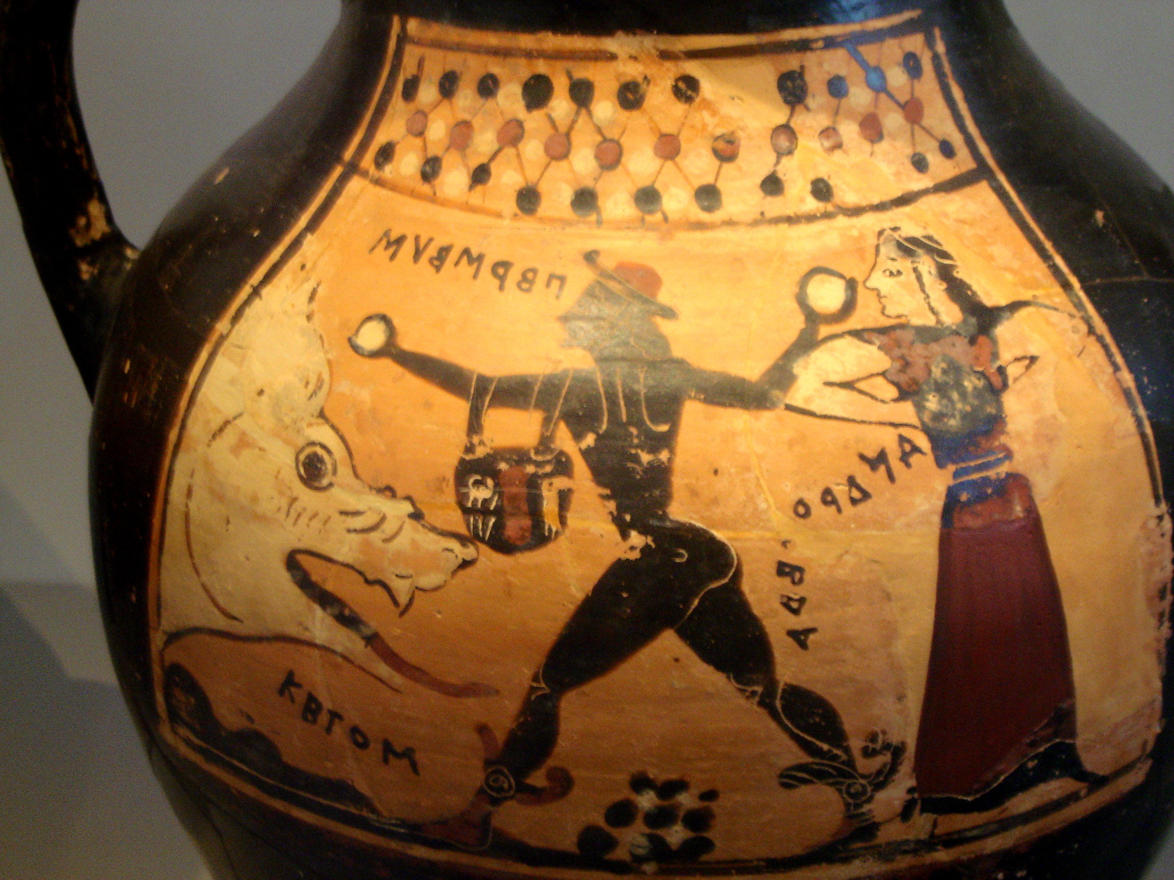 Ancient Corinthian vase depicting Perseus, Andromeda and Ketos. The inscriptions denoting the depicted persons are written in an archaic form of the Greek alphabet and show some peculiarities such as the left-running direction in ΠΕΡΣΕΥΣ and ΑΝΔΡΟΜΕΔΑ, usage of Epsilon instead of Eta in ΚΕΤΟΣ, the employment of the letter San instead of Sigma in ΠΕΡΣΕΥΣ and ΚΕΤΟΣ and different shapes of the letters such as B for Ε or V for Υ.